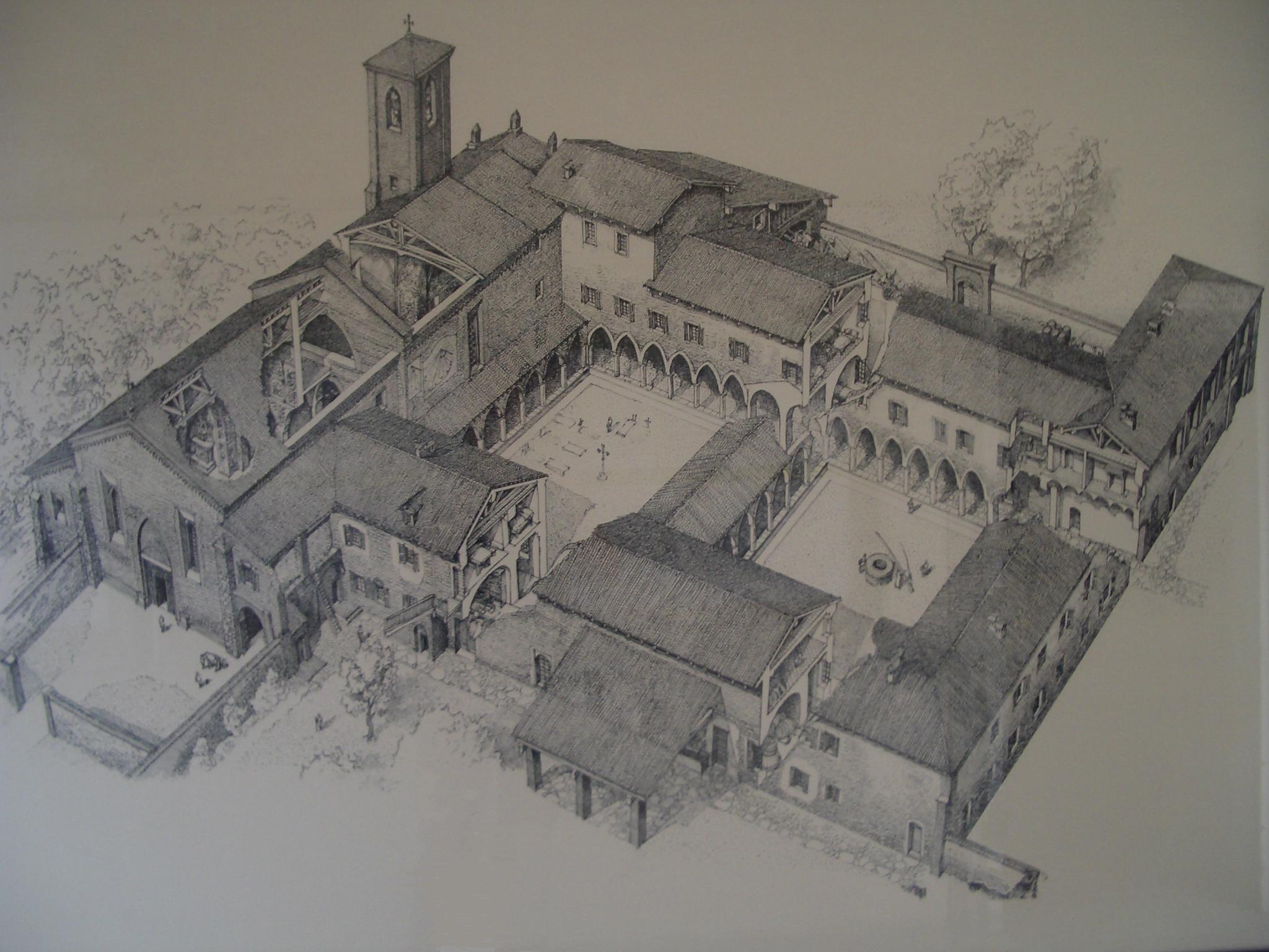 Map of the convent church of San Bernardino (XV century), Ivrea, Italy